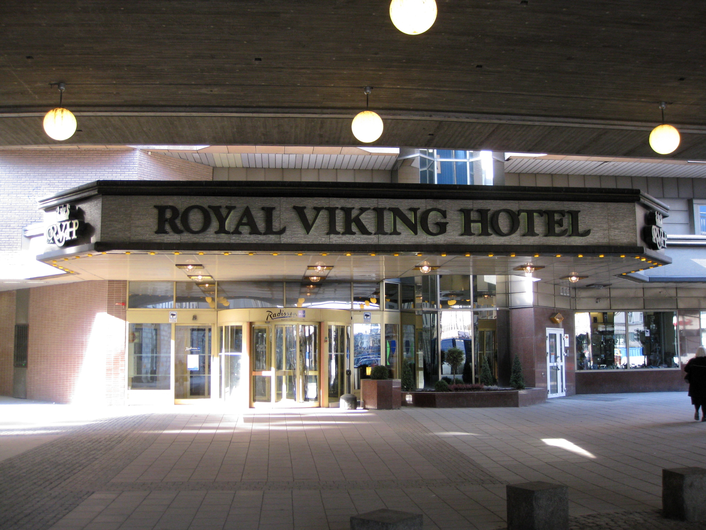 Royal Viking Hotel, Stockholm.